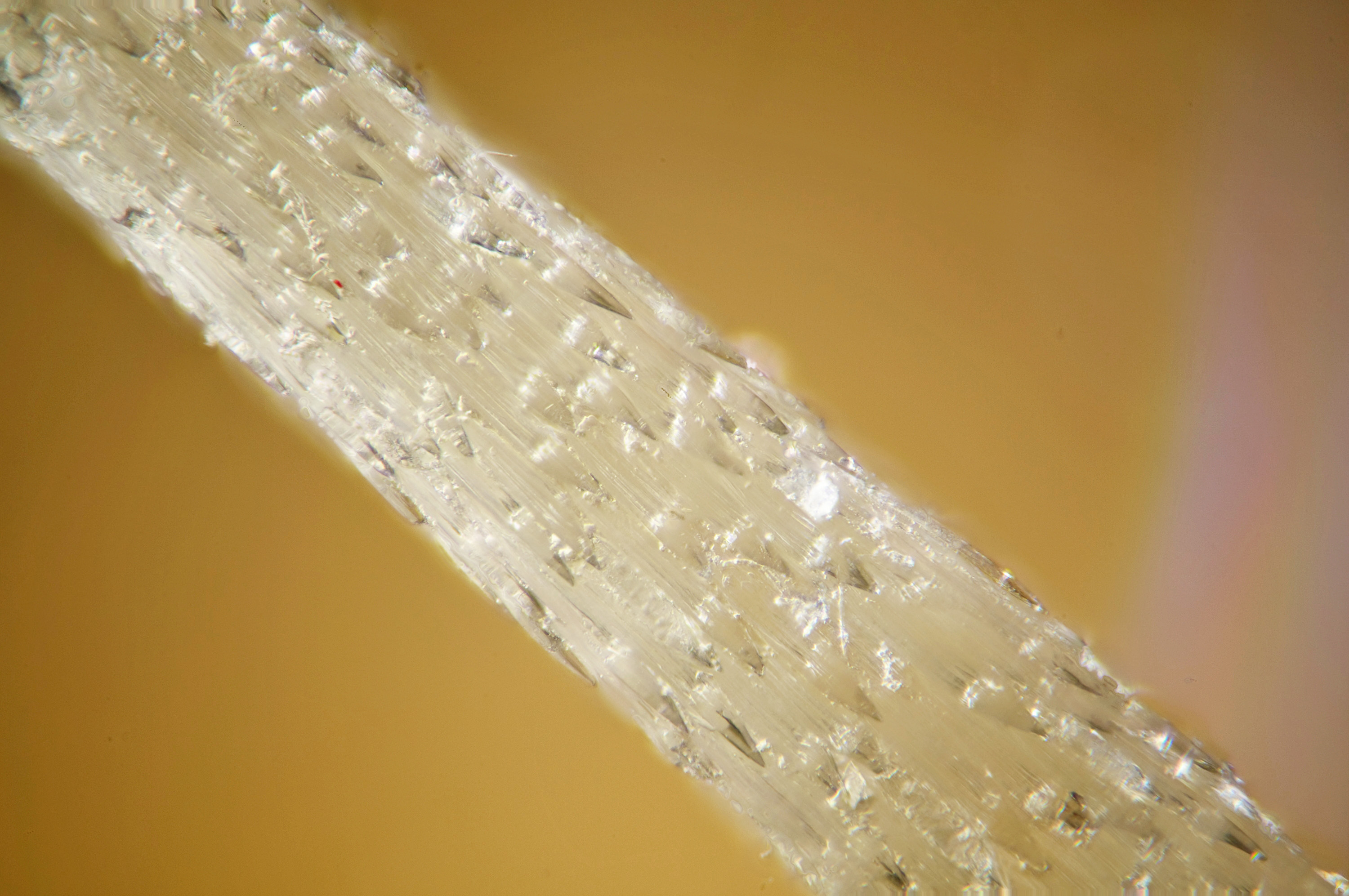 A 21 image microscopic focal stack of a cholla cactus spine showing the barbs which render removal extremely painful.